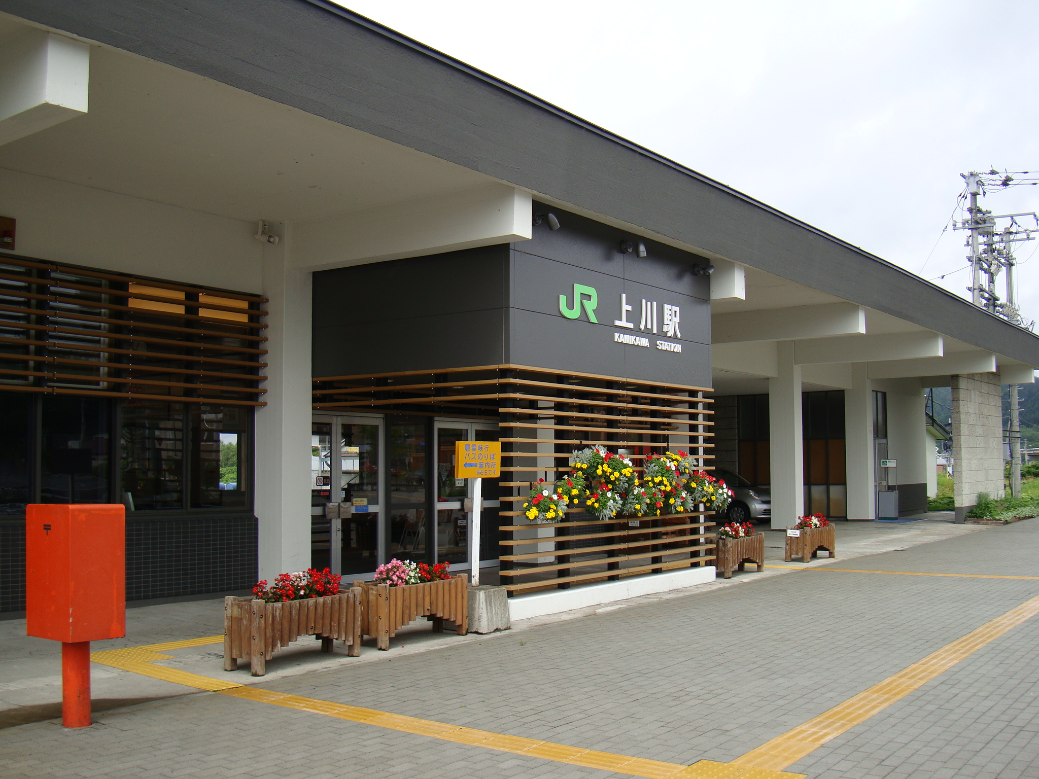 Kamikawa Station